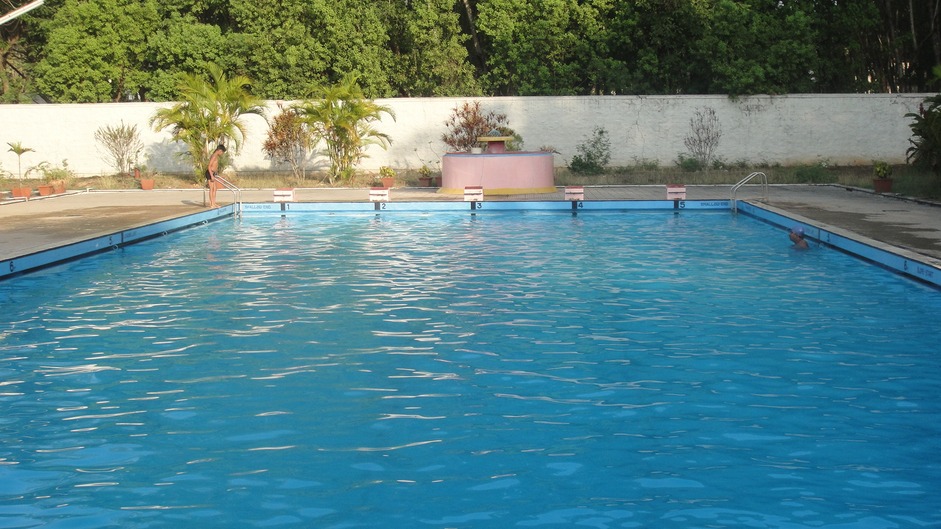 The 6 lane 25 meter swimming pool is open in the mornings and in the afternoon